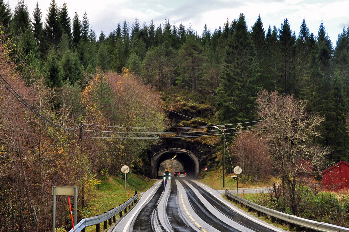 Skjodjevågen tunnel, northern entrace.